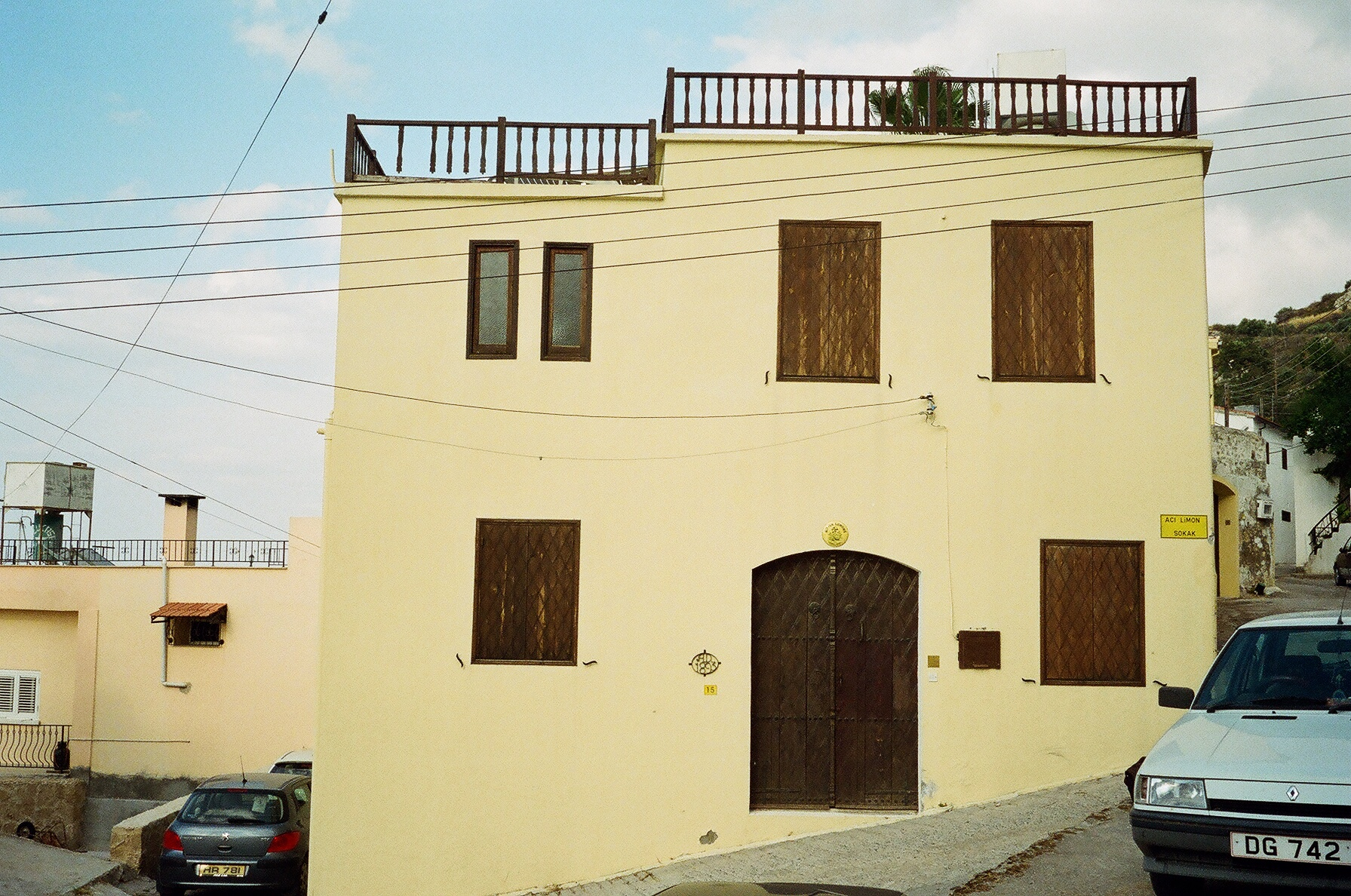 The house Lawrence Durrell bought while on Cyprus.